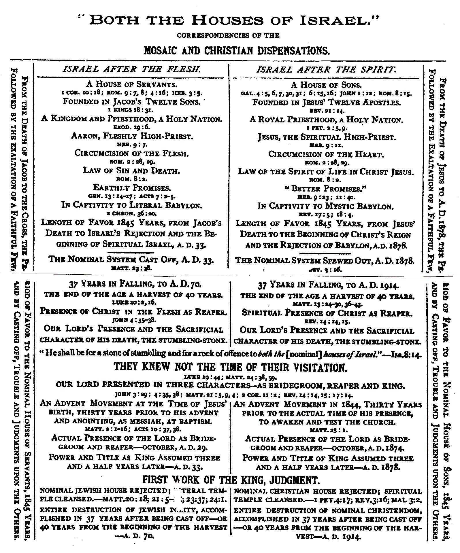 Interpretation of Biblical Chronology by Charles Taze Russell, founder of the Bible Student movement and Jehovah's Witnesses